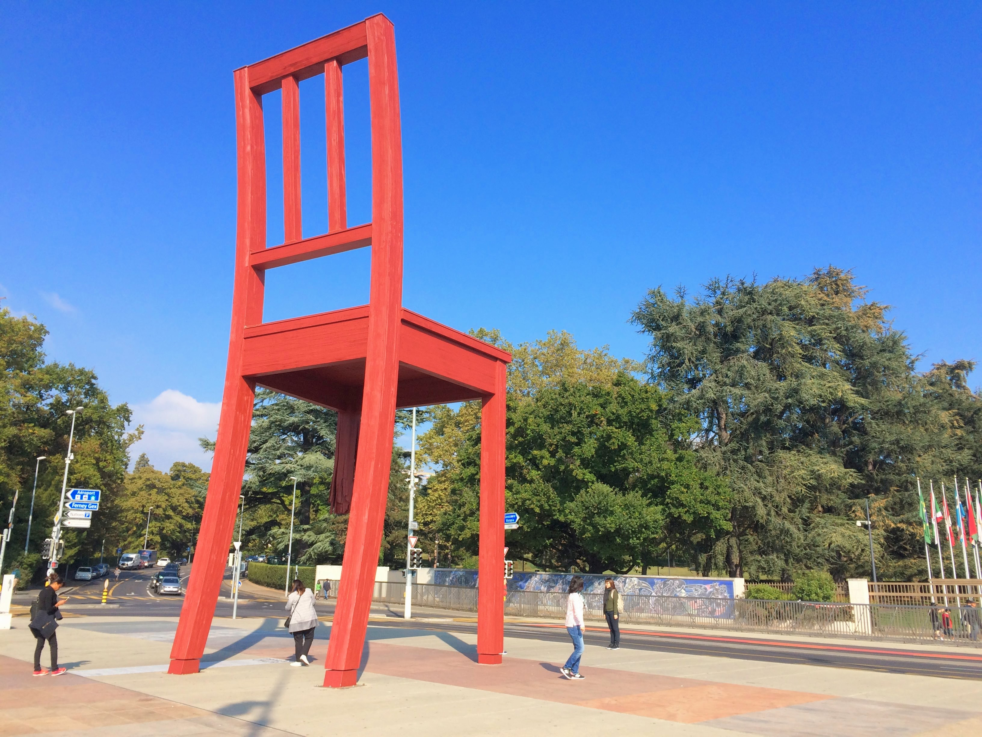 Broken Chair United Nations Geneva